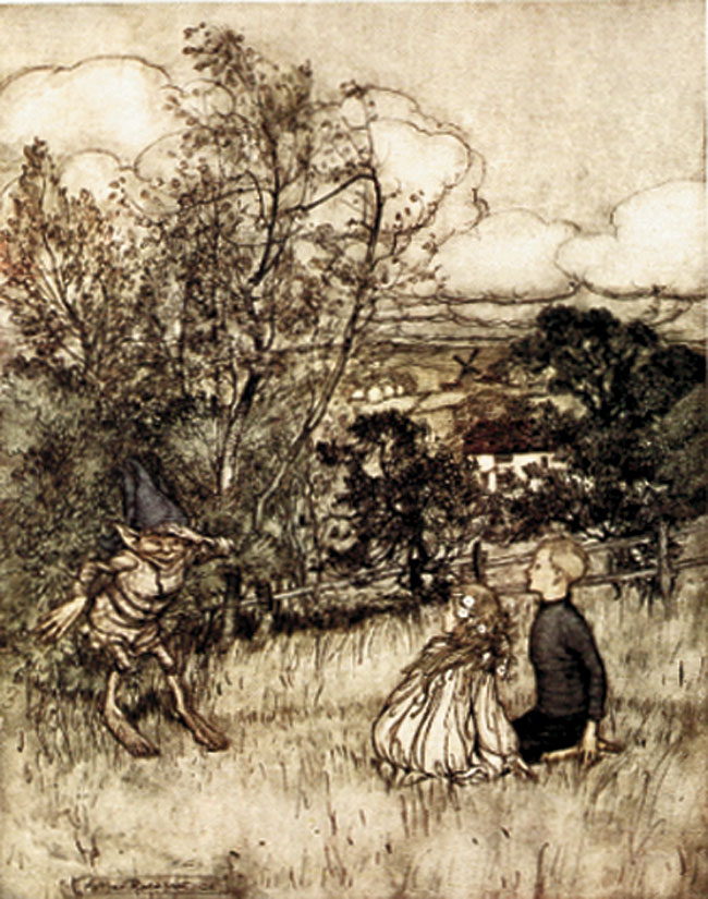 Illustration to Rudyard Kipling's Puck of Pook's Hill, by Arthur Rackham